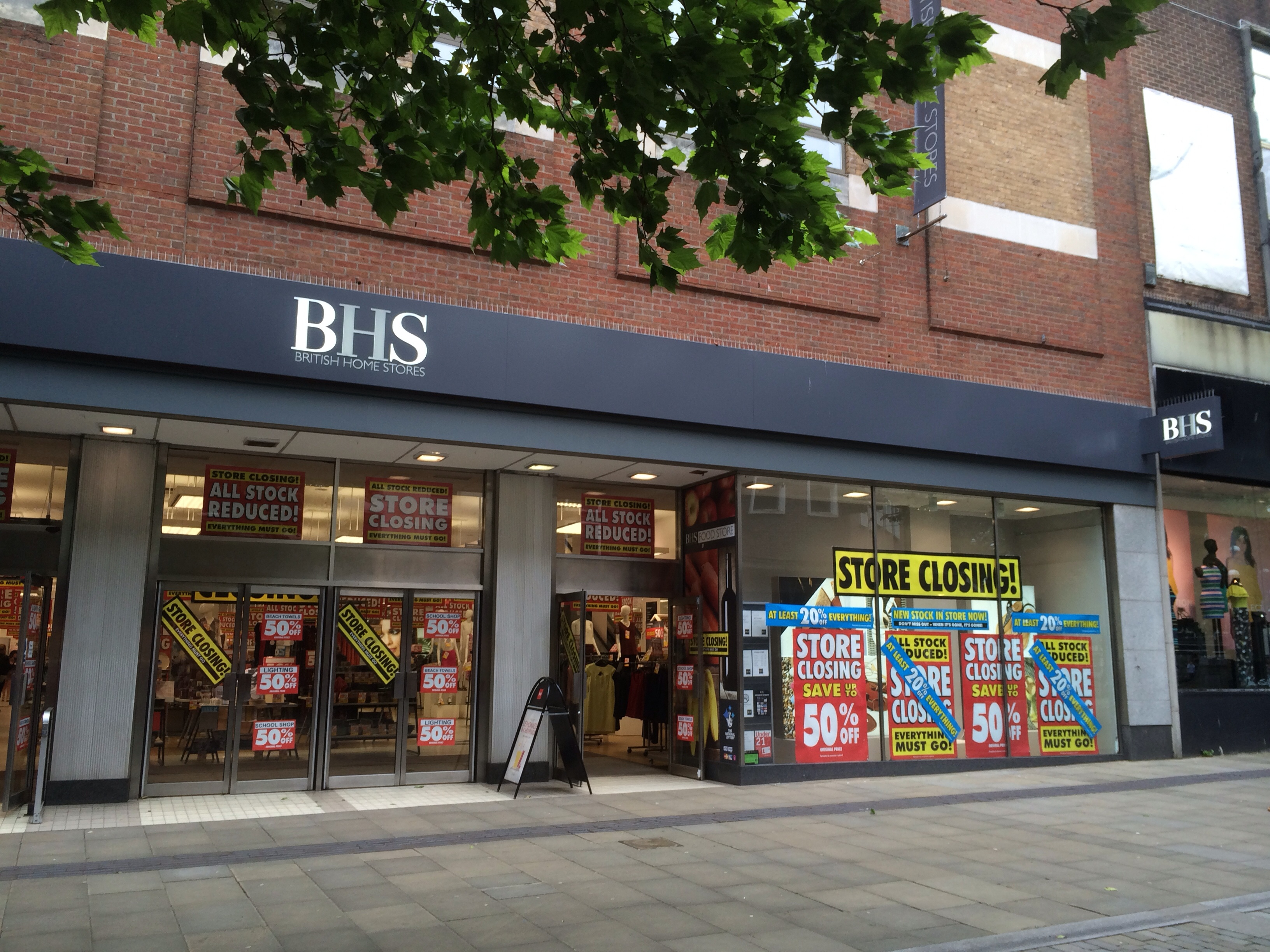 Shop front of BHS Store, Oxford Street, Swansea, Wales